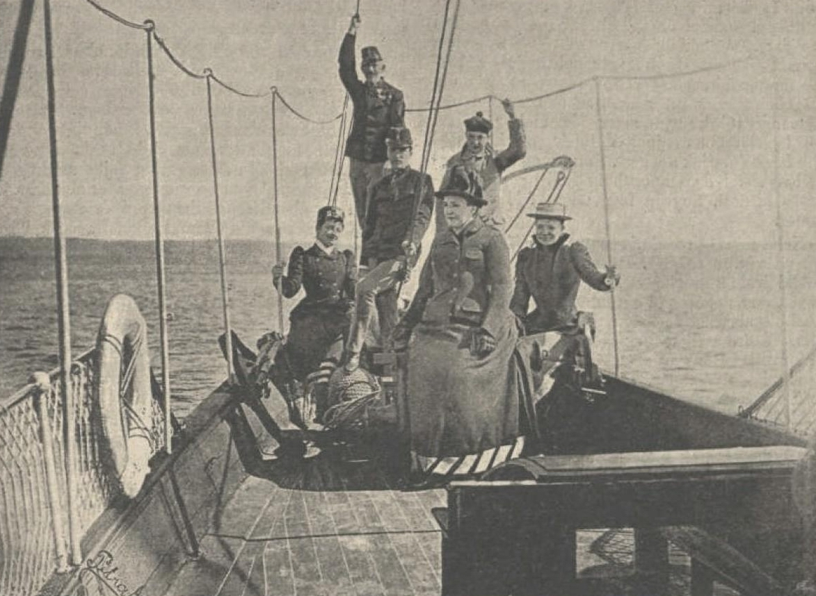 Archduke Joseph Karl Ludwig of Austria, Clotilde von Sachsen-Coburg und Gotha, Archduchess Maria Dorothea of Austria, Archduke Joseph August of Austria, Archduke László of Austria, Countess Irma Sztáray on a yacht.